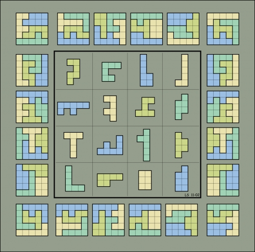 A computer-discovered 4×4 geomagic square. Every magic line contains three hexominoes and one heptomino.